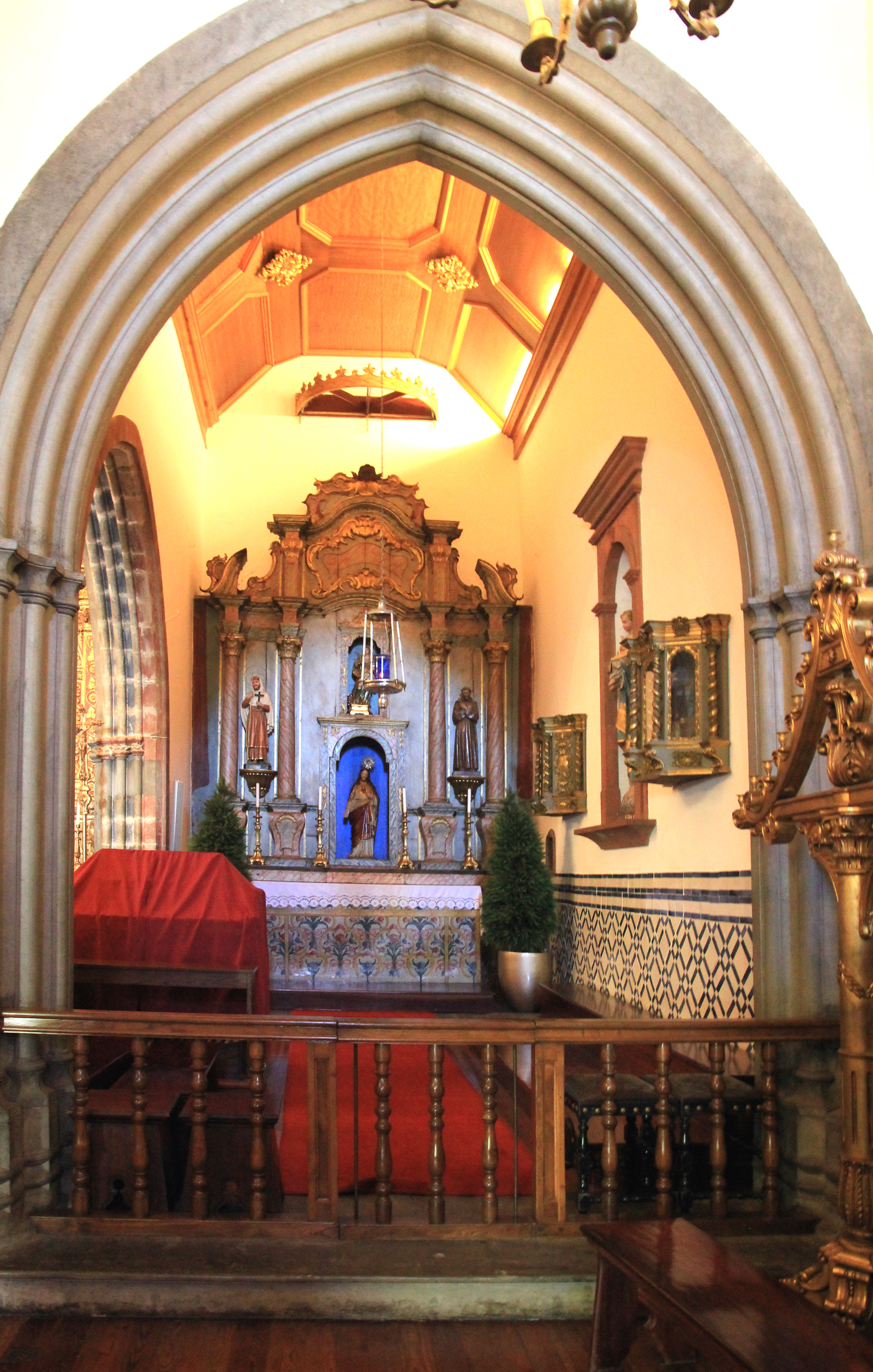 Interior of Saint Benedict church in the town Ribeira Brava, south coast of Madeira island